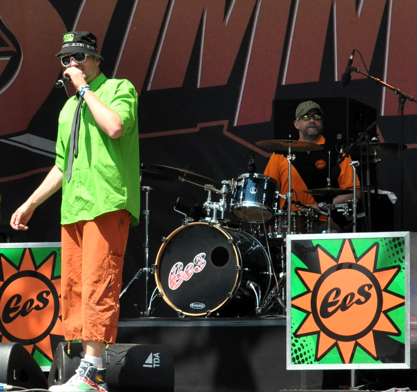 Ees at Summerjam festival 2013